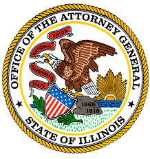 Seal of the Attorney General of Illinois